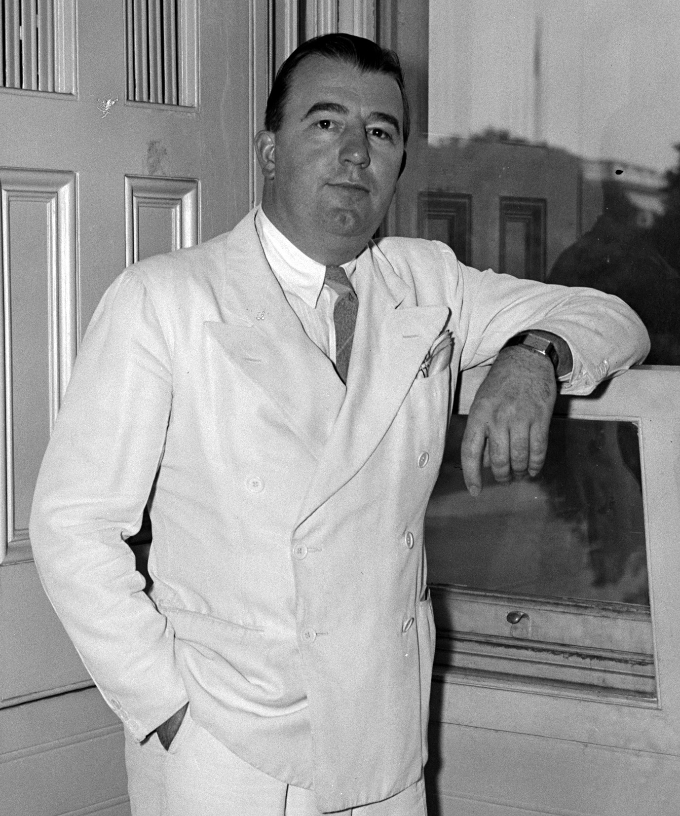 Jennings Randolph, US Senator from West Virginia